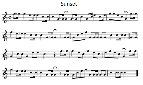 British version of the bugle call "Sunset" (also known as the Retreat). Public domain by virtue of age and "traditional" status.